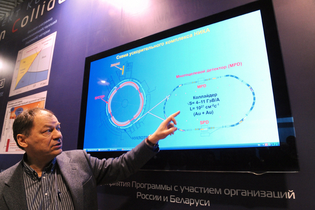 “Joint Institute for Nuclear Research in Dubna hosts seminar on Physics on Large Hadron Collider”. Vladimir Kekelidze, head of the high-energy physics laboratory.